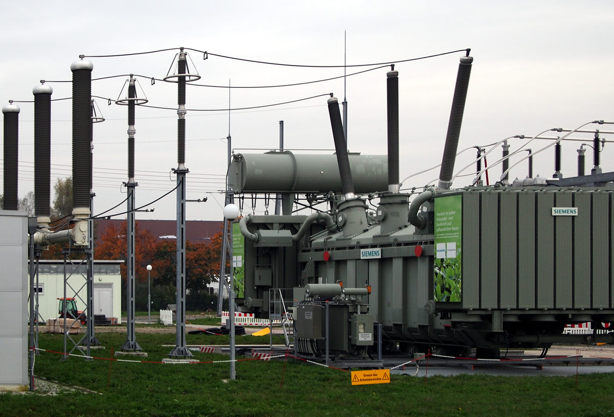 Vegetable oil cooled high-voltage transformer [3]